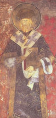 Joanikije II, from fresco at the southern wall of the Church of St. Demetrius, in Peć